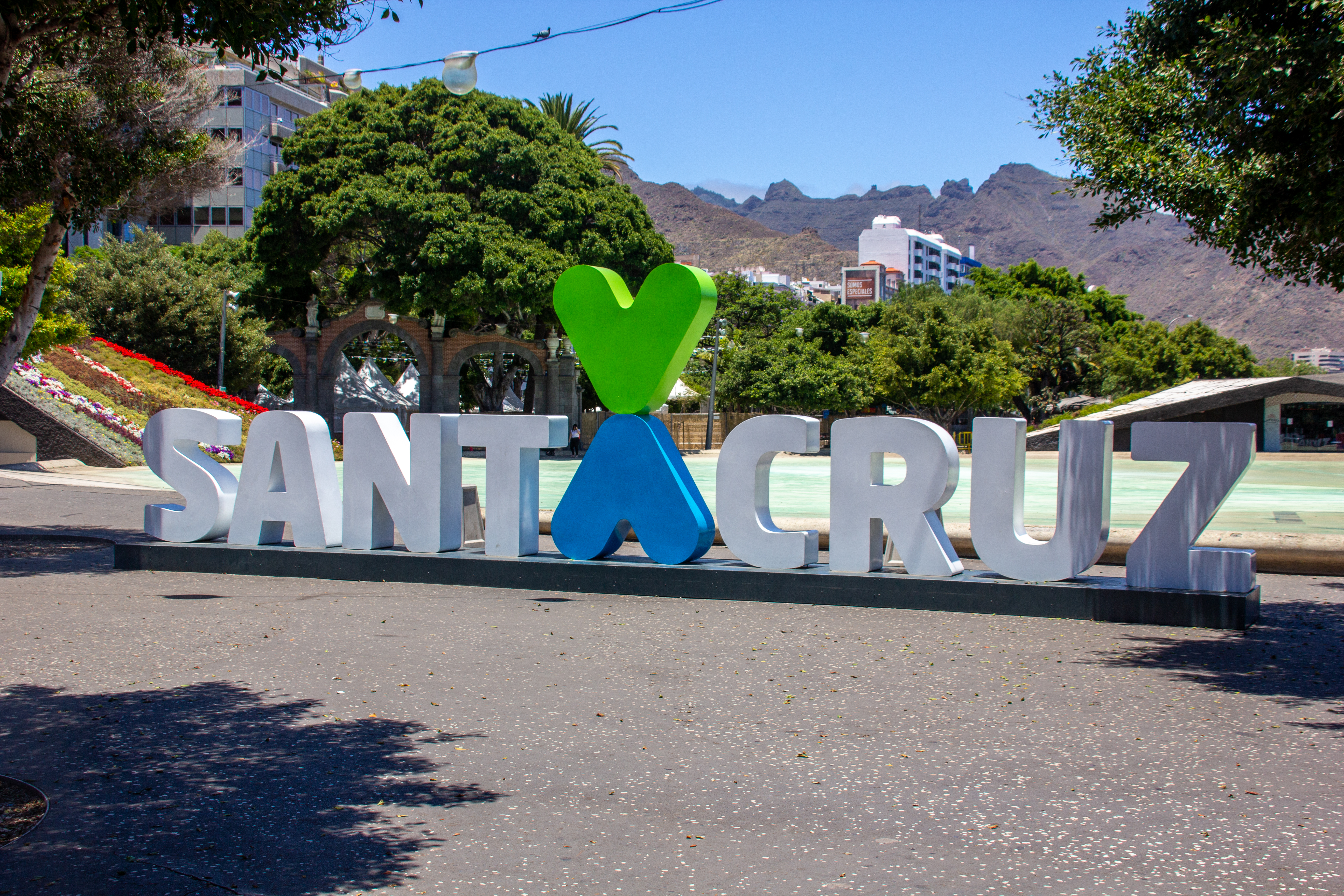 Santa Cruz de Tenerife, Tenerife, Spain